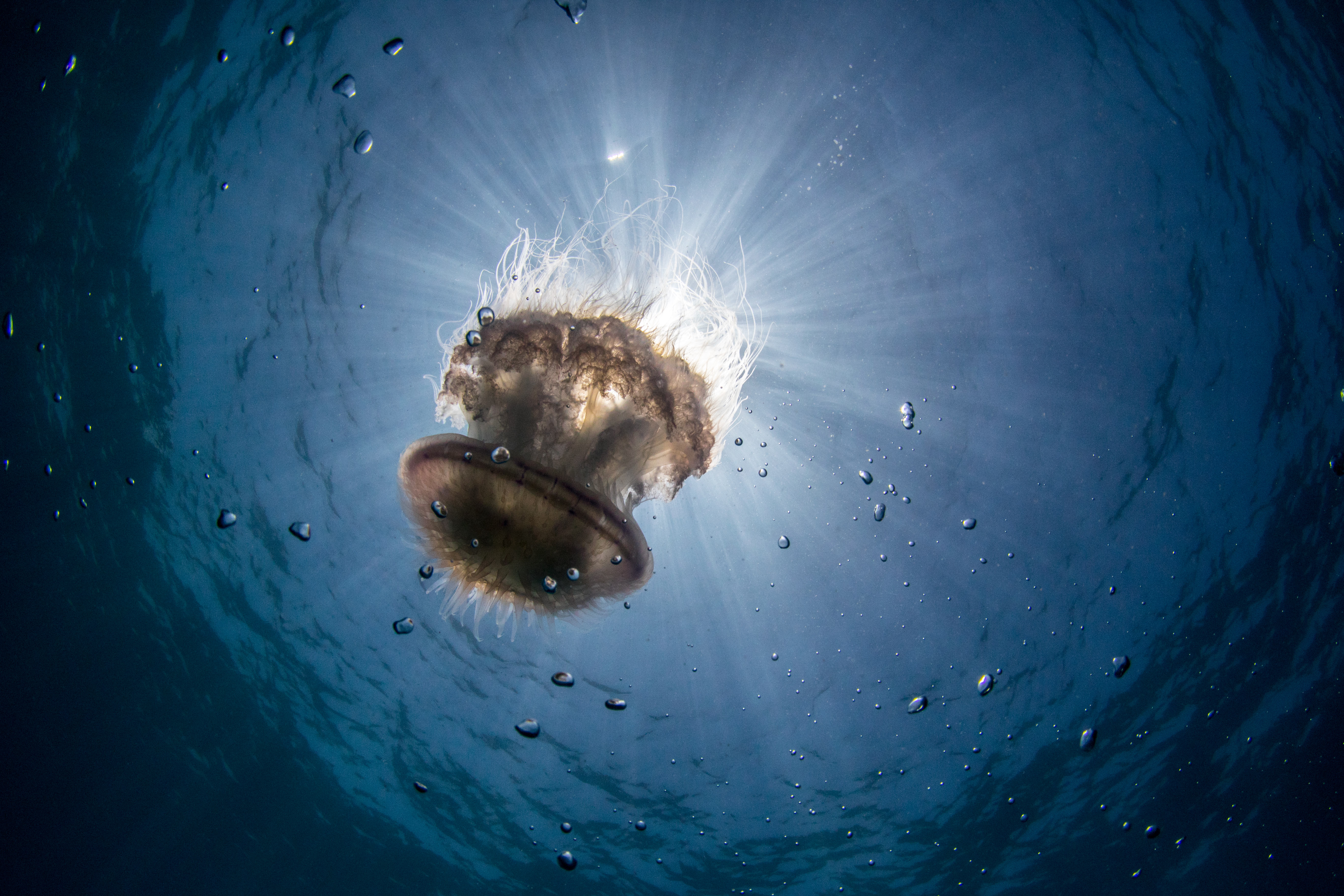 Phuket, Thailand